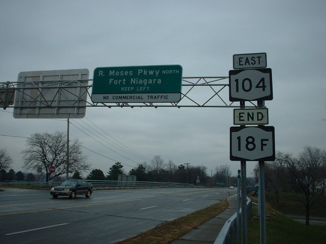 The southern terminus of New York State Route 18F at the Robert Moses State Parkway and New York State Route 104 in the village of Lewiston.